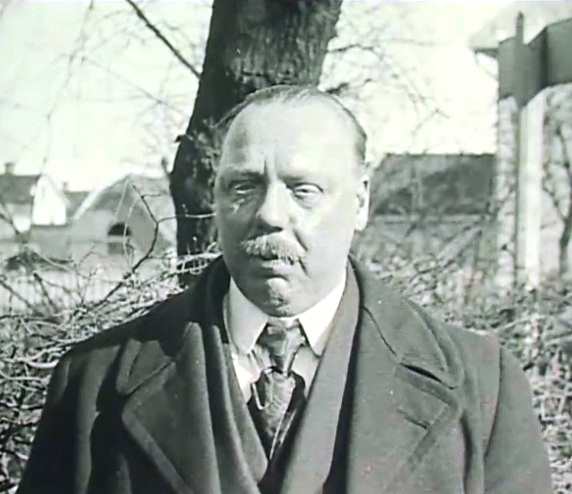 Johan Emil Pettersson-Larsson (1876-1954) from the court case known as Marsjömålet